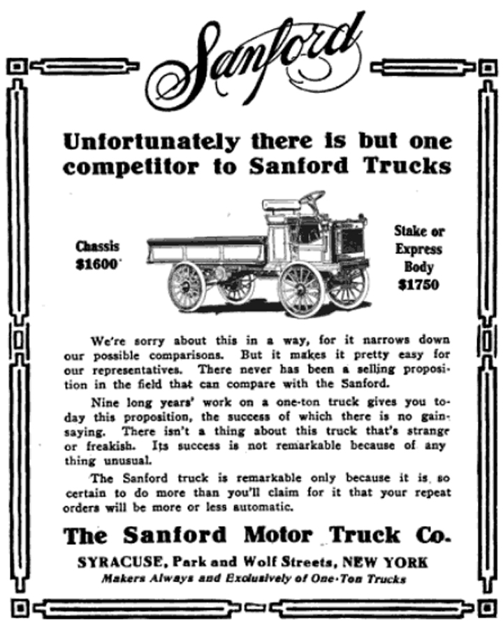 Sanford Motor Truck Company - Advertisement 1912